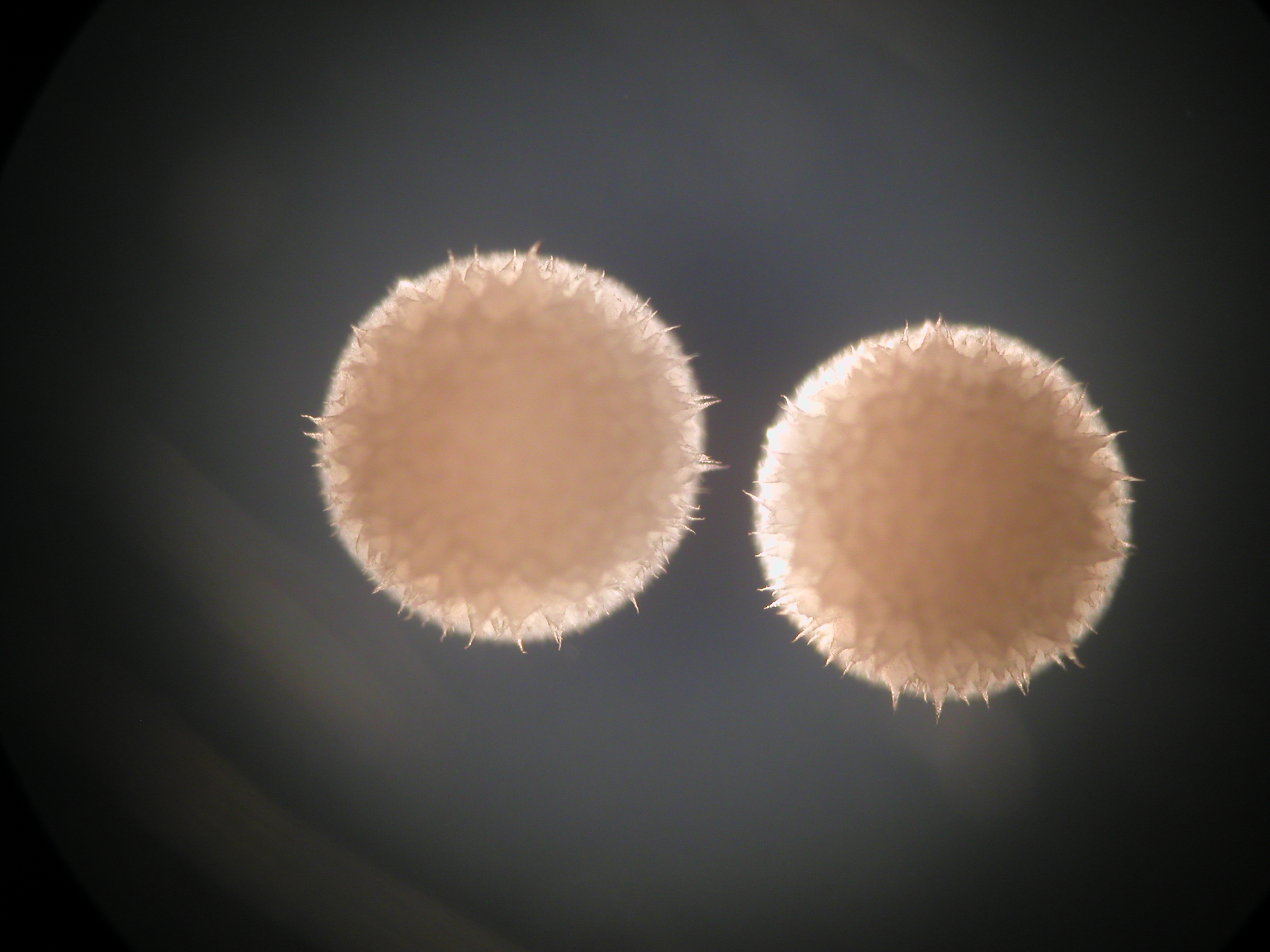 Colonies of Streptomyces hygroscopicus on agar plate through microscope